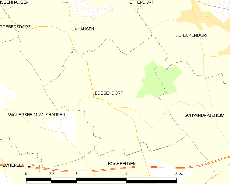 Map of French municipality